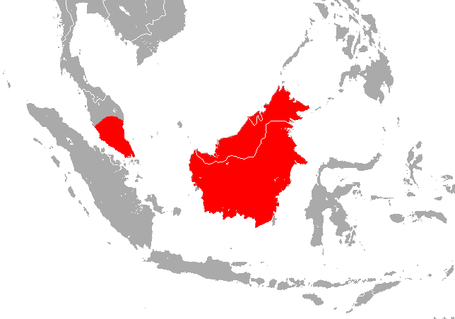 Rhinolophus sedulus range